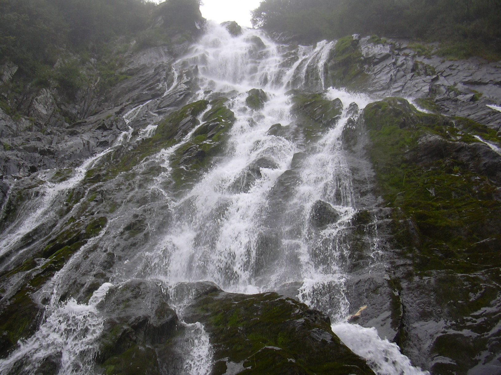 The Bâlea Cascade